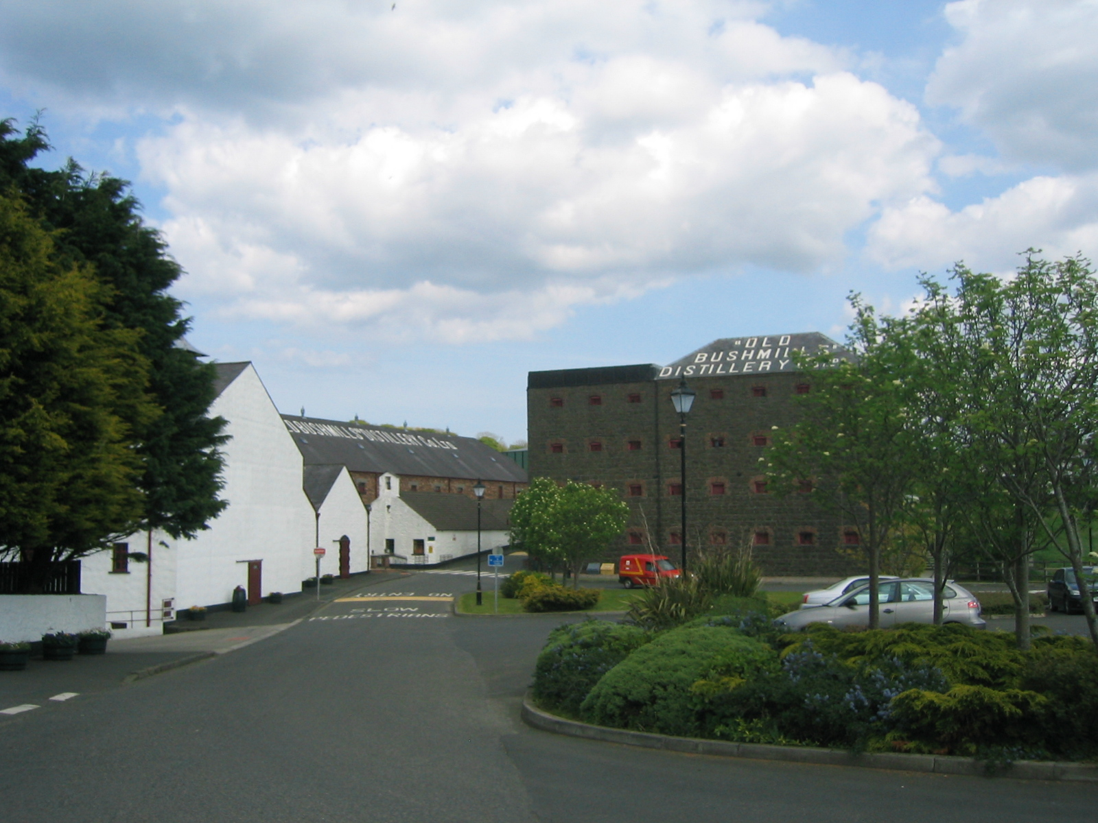 Old Bushmill's Distillery, Northern Ireland.